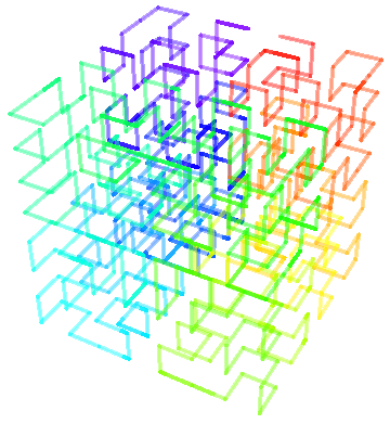 Extension of Moore plane-filling curve to three dimensions, iteration 3